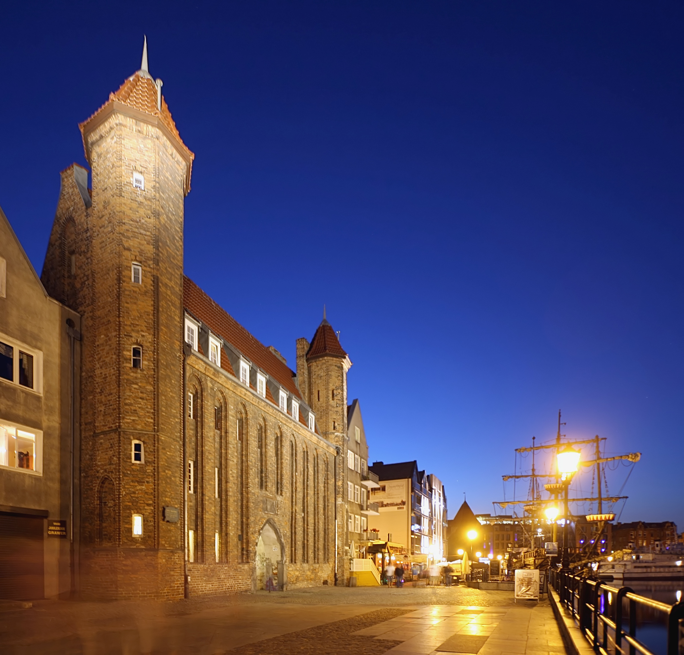 Straganiarska gate, Main Town of Gdańsk, Poland, at night.